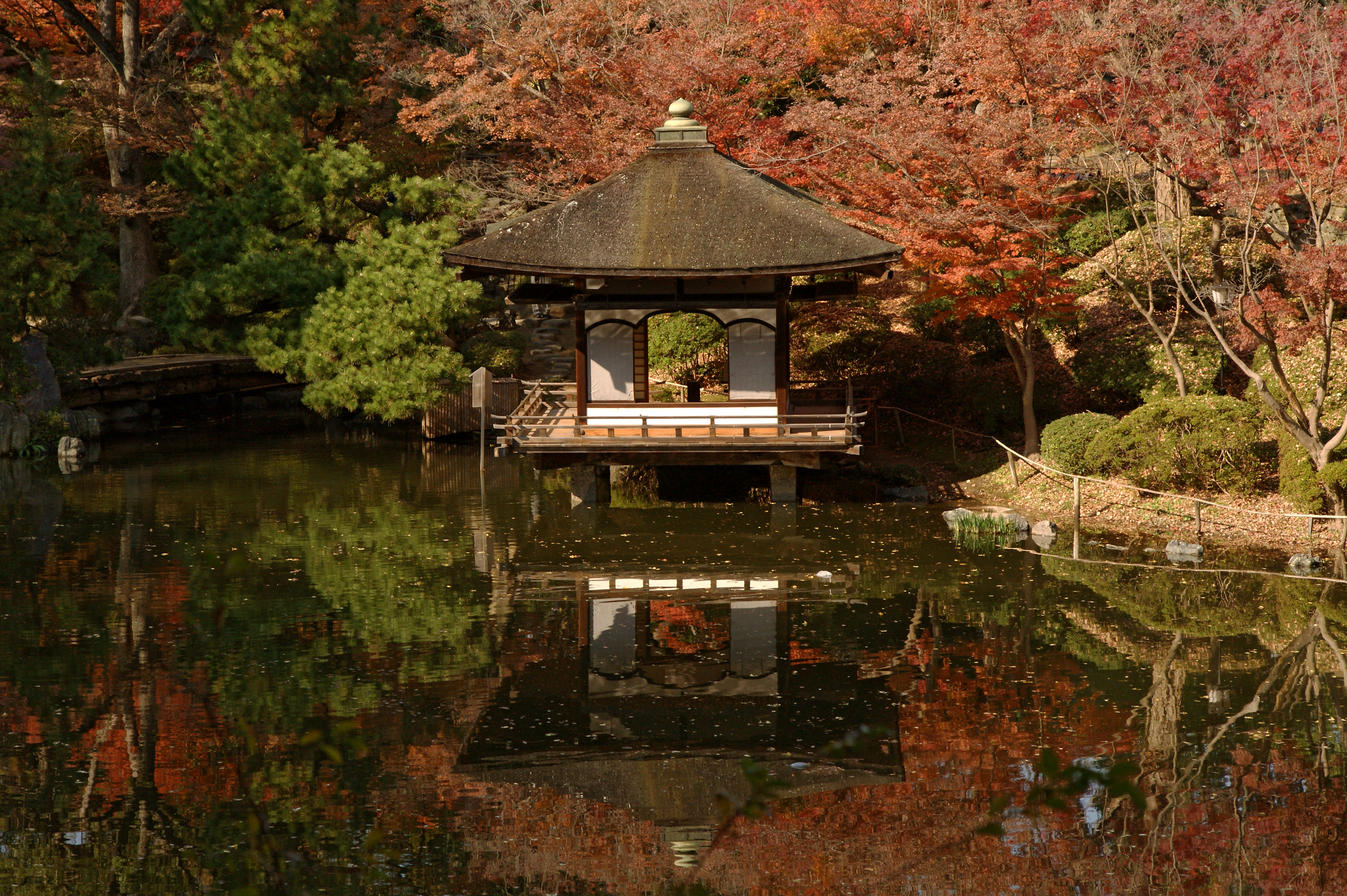 Wakayama Castle Nishinomaru Garden, Wakayama, Wakayama prefecture, Japan